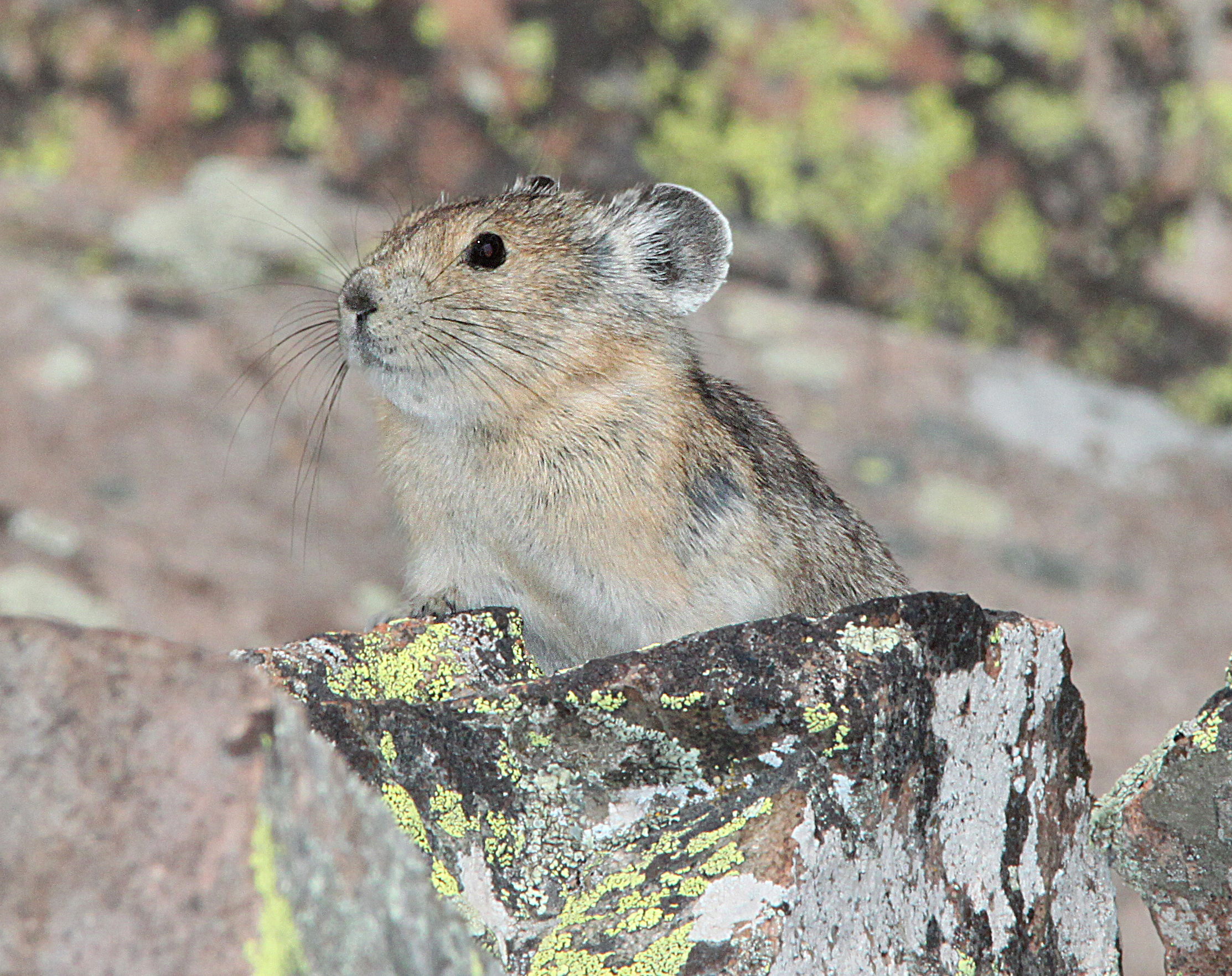 CRITTERS (MAMMALS)